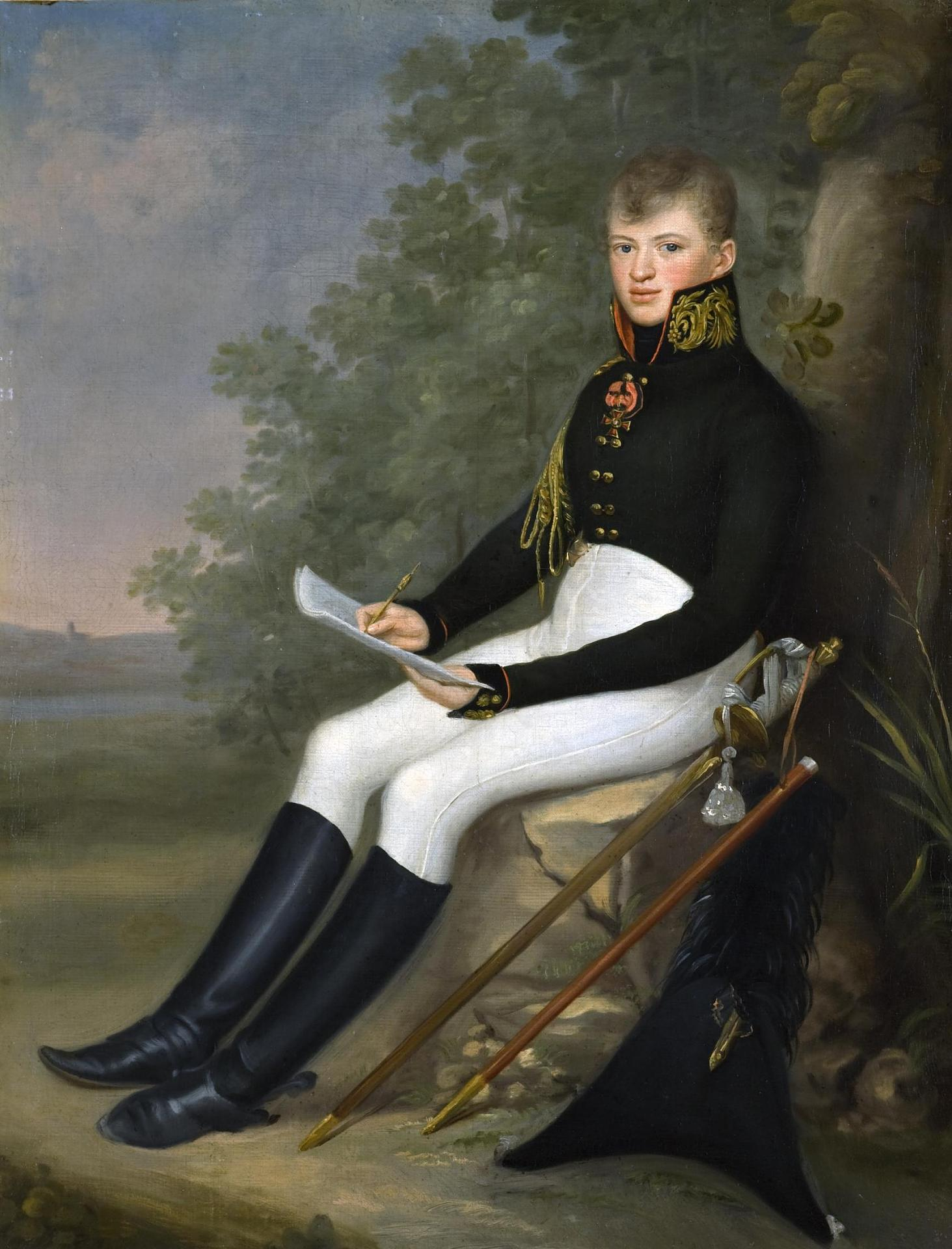 Portrait of Friedrich von Schubert (1789-1865)